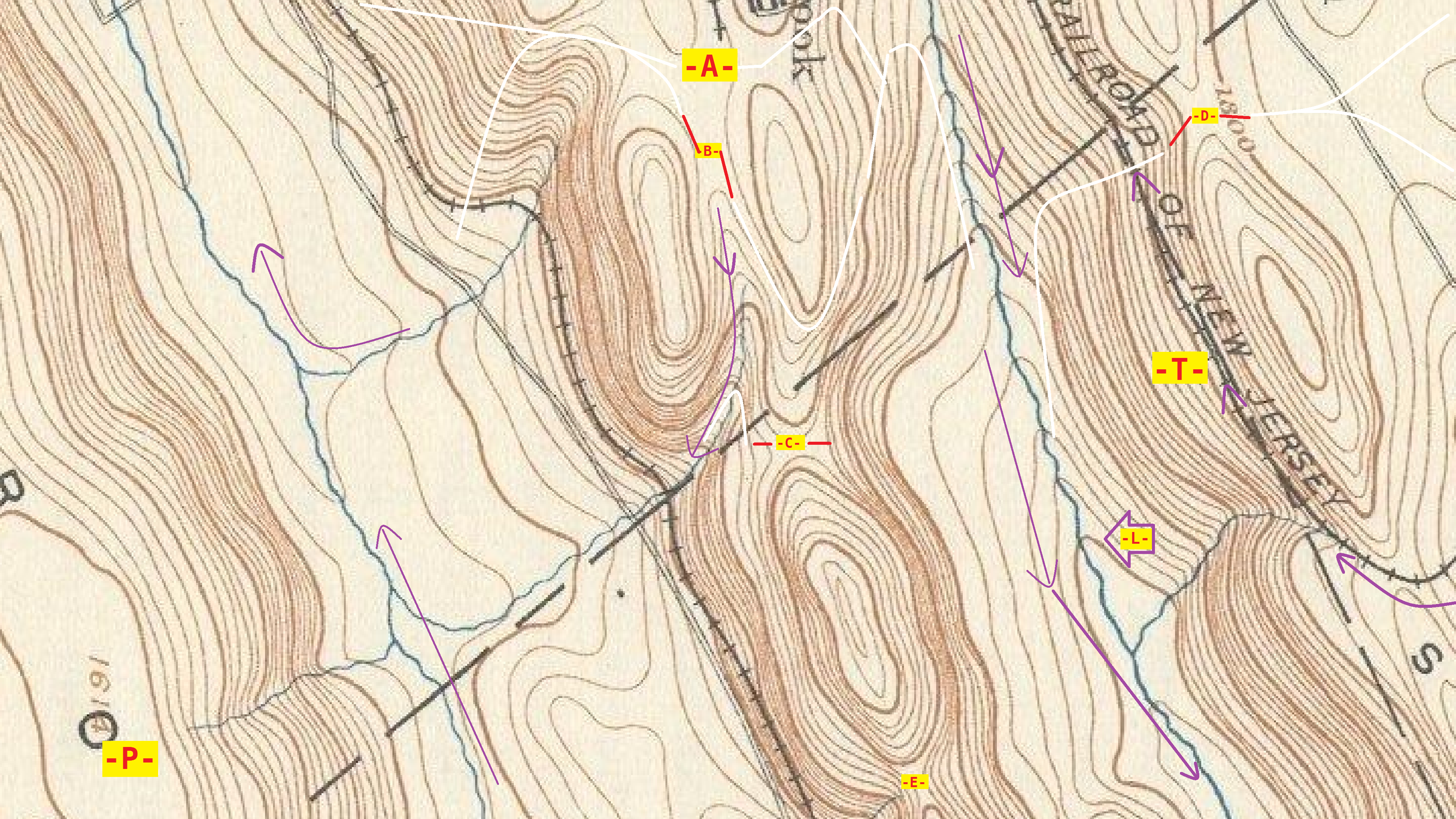 1890s' series USGS cropped and processed topographical map selected to demonstrate landform definitions in an actual terrain setting. Several types of curves have been added to aid educational understanding. This map is a rotated extract of This map used to delineate and illustrate the region's drainage divides. The features on this map are also shown on This Map just East from McAdoo Heights, just West of Waverly, the stream along Broad Mountain is Quakake Creek, on this map traced by the course of the railroad on the left—the map shown is rotated with North to the Right side, East is DOWN. Best estimate, the center of map is Kline Township, PA about: 40.907860,-75.992088 BING maps finds these nearby points before settling on those coordinates: (Bolded terms have matching terms on this map) Tresckow, PA -- 40.914959,-75.966248 285 Silverbrook Rd, McAdoo, PA 18237 -- 40.884390, -75.983194 Kline Township, PA -- 40.881020, -75.962454 (NOW Still Creek Reservoir -along Quakake Rd which used to be Quakake Railroad tracks. Annotation (Yellow squares) labels: For Tutorials: A, B, C, D, & E -- Are all Saddle (landform) features, which this extract was cropped to demonstrate and educate about. L -- inside an arrow, points out that watercourses create a Vee notch in the topography lines. P -- Shows PEAK or Summit as labeled by USGS practices. T -- A Traverse -- an inclined path climbing/descending across the contours of the countryside. Unlabeled landforms... at the least include: Creeks, runs, streams, ravines, gaps, minor plateaus, escarpments, cliffs, notches, and rivers.